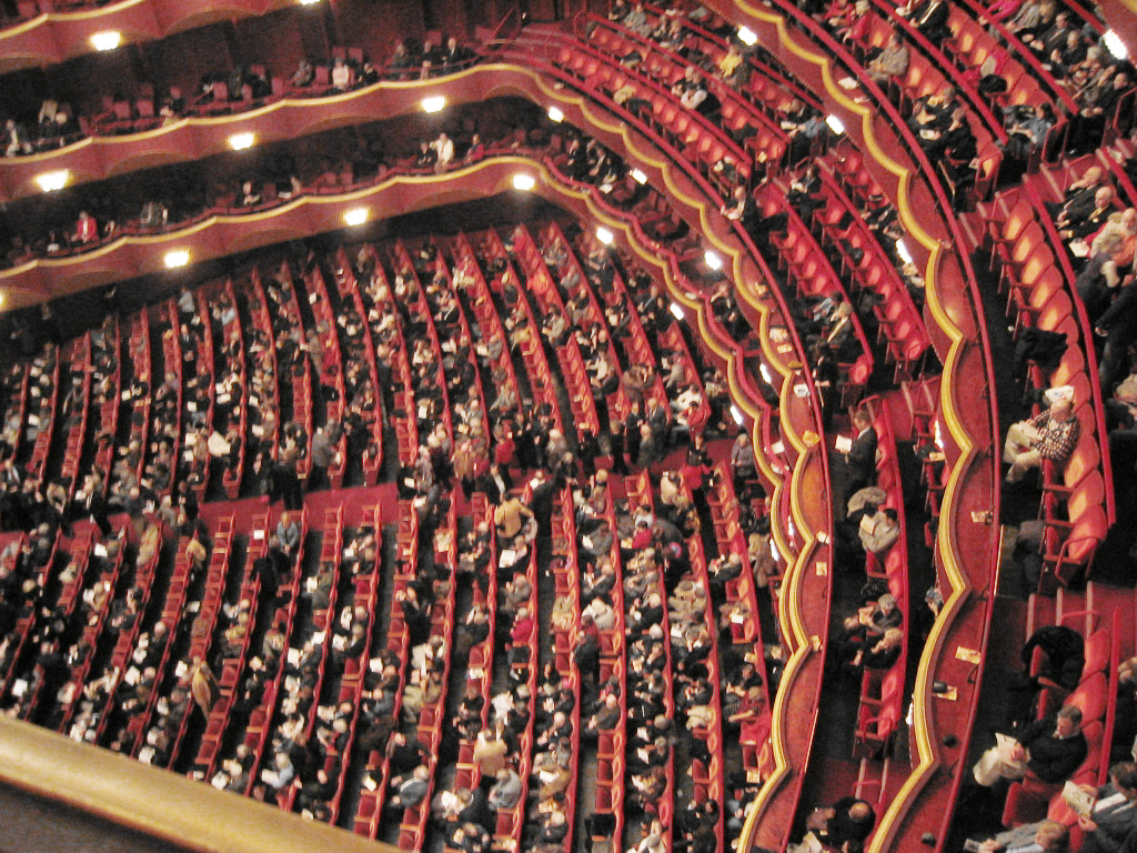 Metropolitan Opera (Lincoln Center), auditorium seen from Family Circle